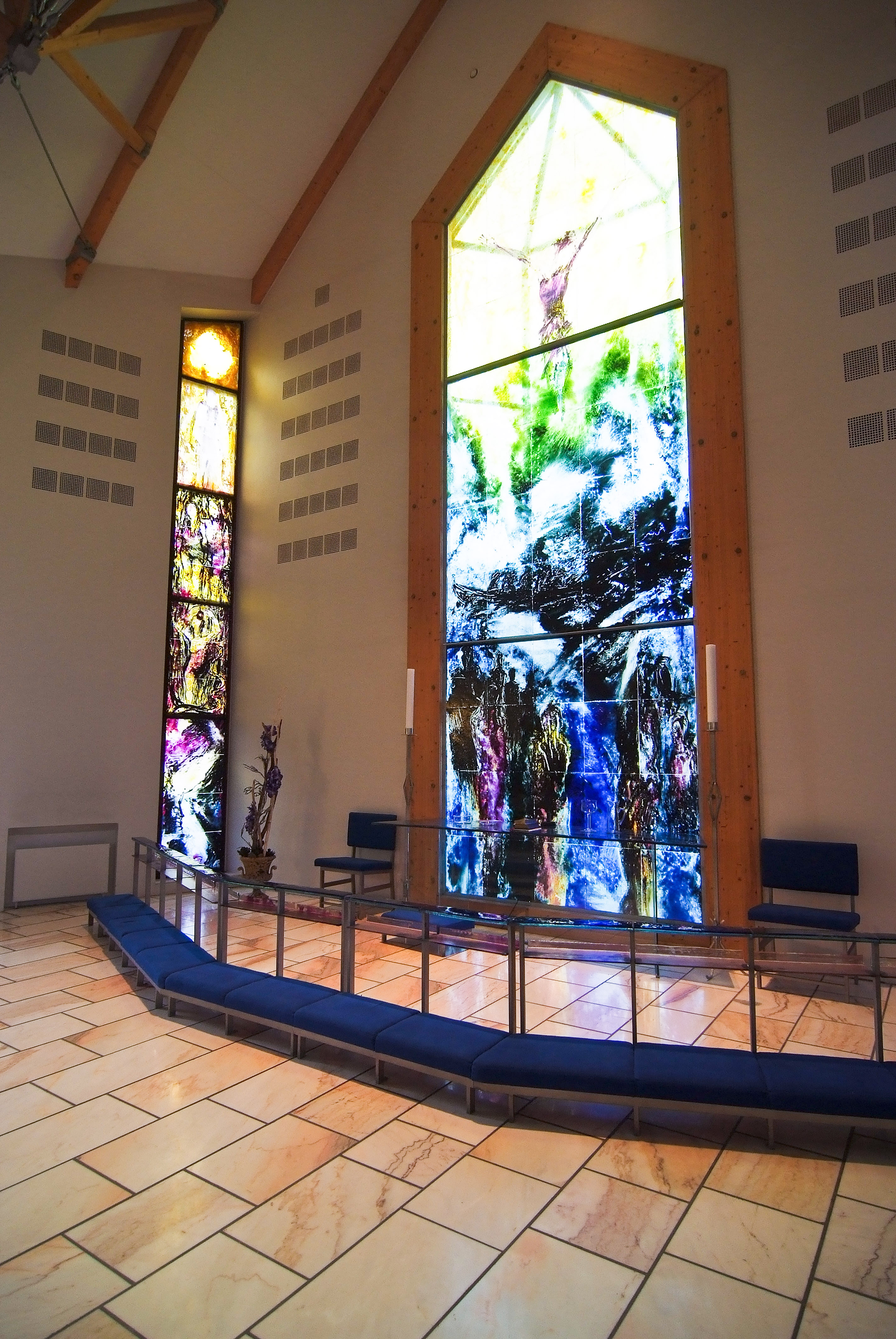 Gøtu kirkja